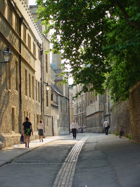 Brasenose Lane, Oxford, England.